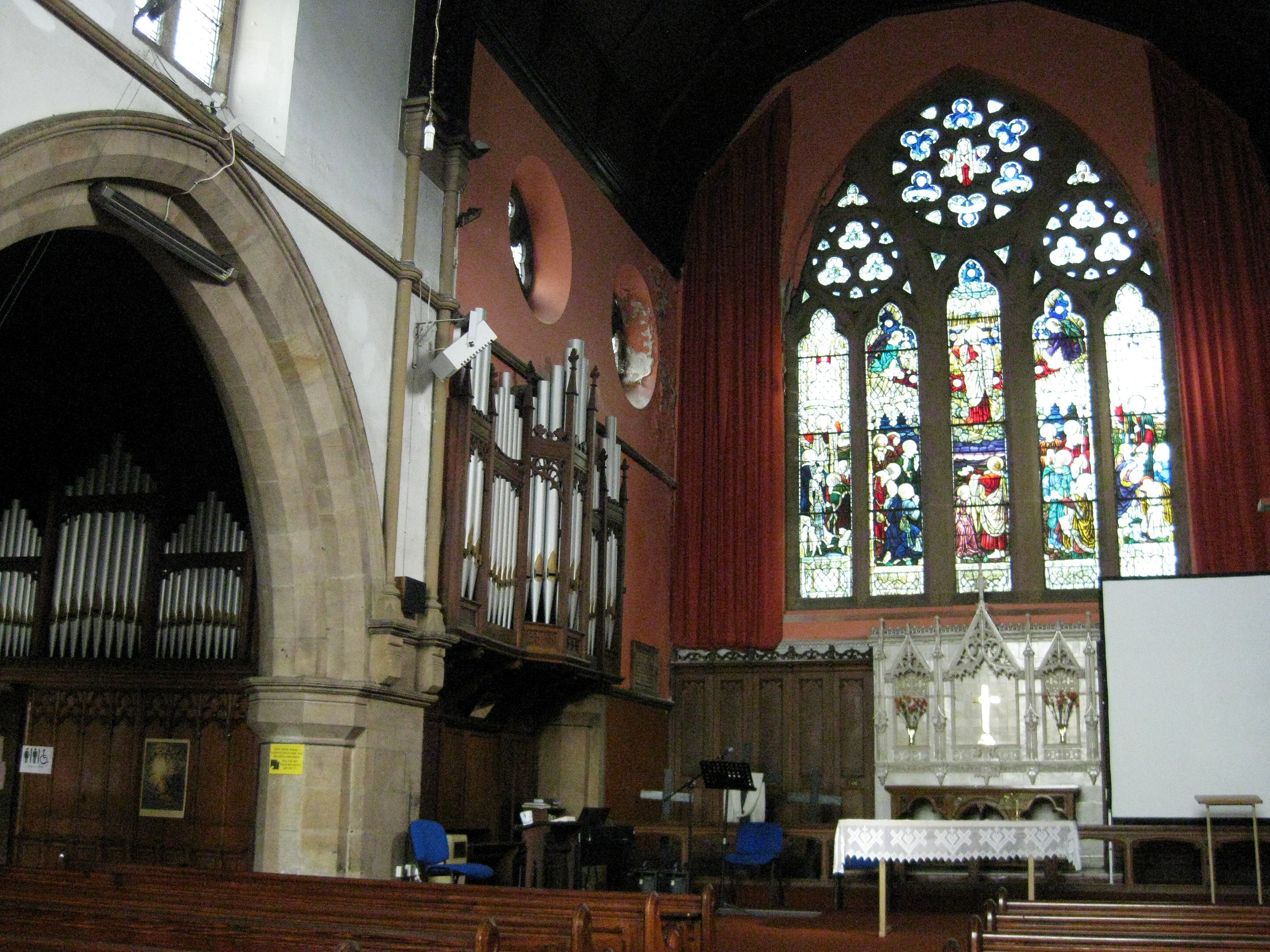 Interior of St Agnes Church, Burmantofts, Leeds LS9 7UQ. Showing organ, altar with reredos in Burmantofts faience and stained glass East window.